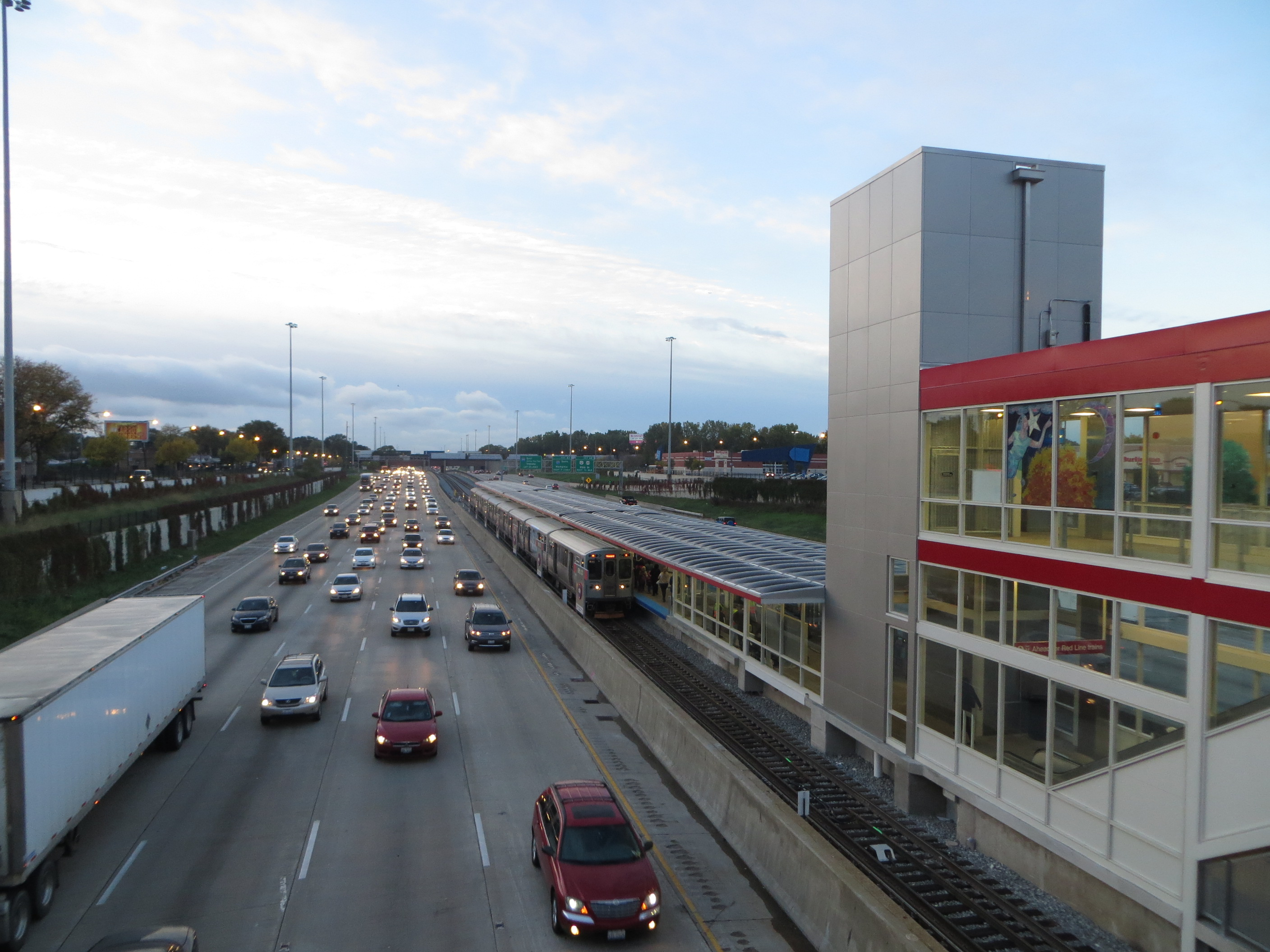 20131021 07 CTA Red Line L @ 87th